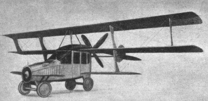 Curtiss Autoplane displayed at New York Aero Show, 1917